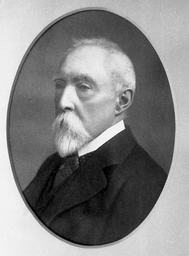 Portrait of Sir Edward H Carbutt, president of the Institution of Mechanical Engineers 1887-8, co-founder of Bradford's Vulcan Iron Works with Robinson Thwaites.